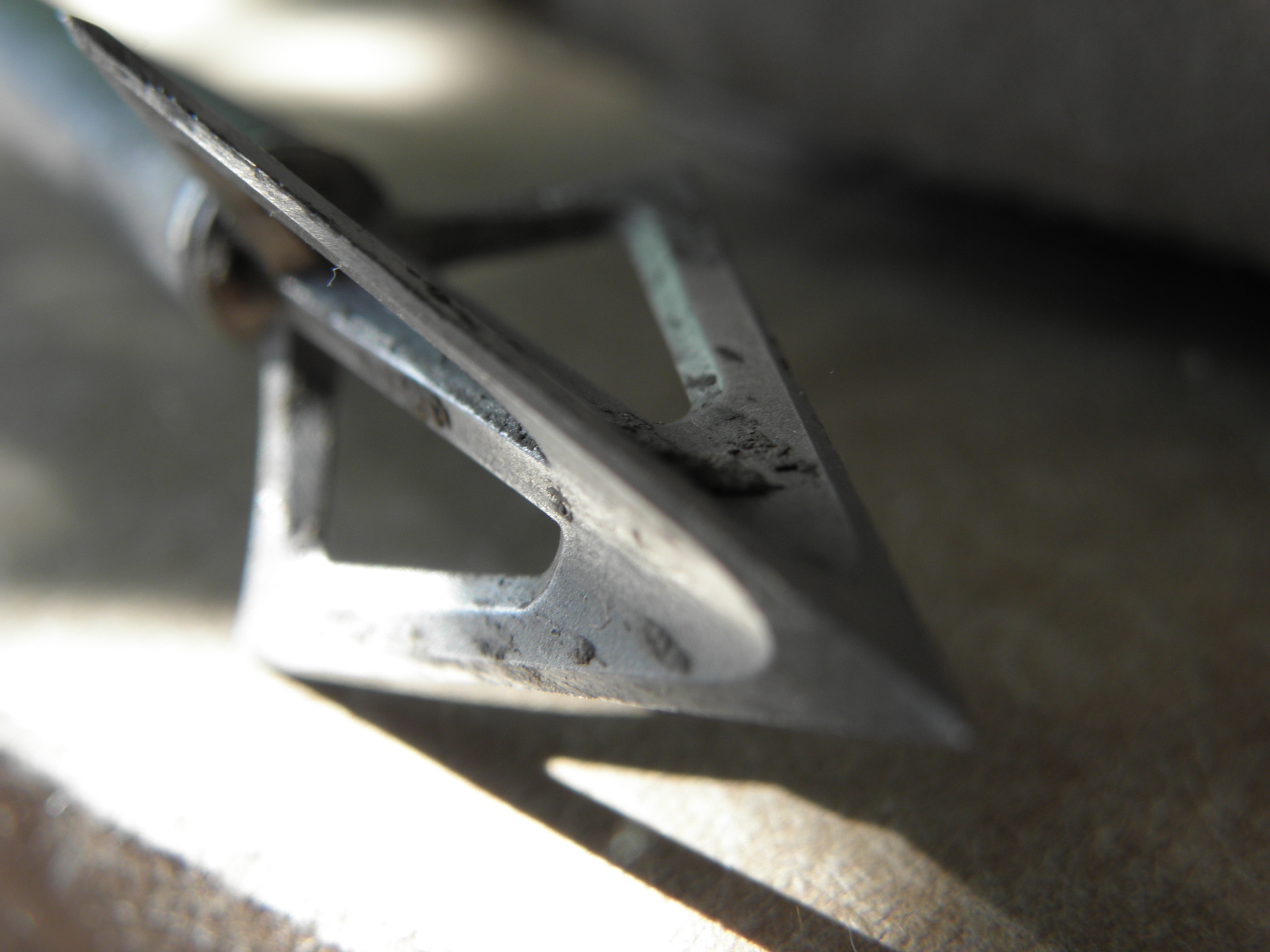 A Broadhead arrowhead attached to an arrow